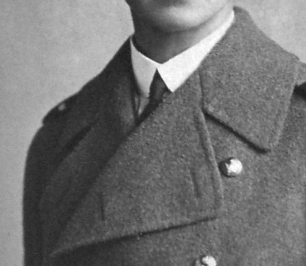 Air Commodore Ian Bonham-Carter. This image is a digital reproduction of an original photograph which was taken between 1 Jul 1925 and 31 Dec 1953. It was probably taken around 1930. The uploader digitized the photograph.